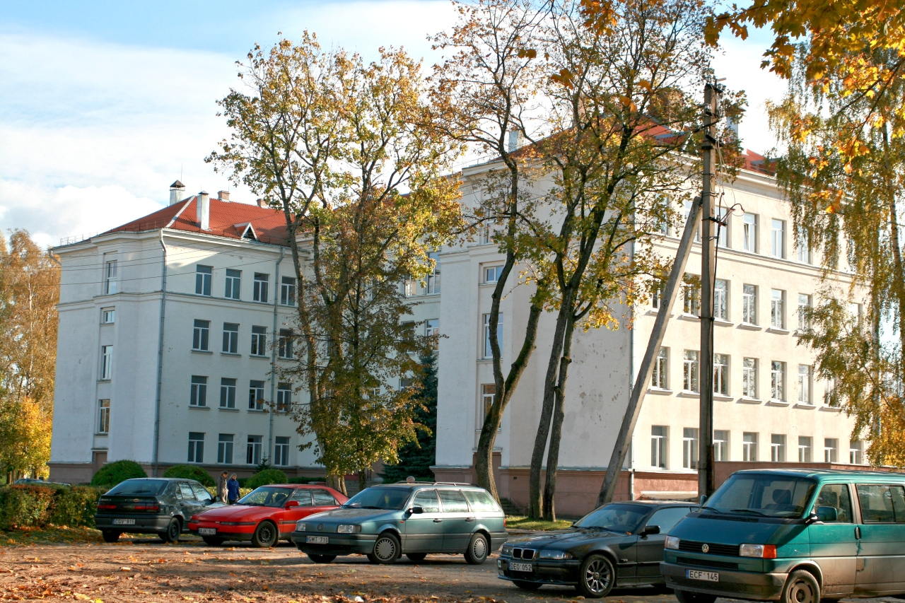 Jurbarkas Antanas Giedraitis-Giedrius gymnasium